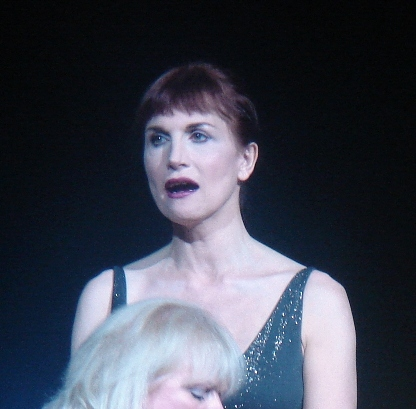 Picture of Adèle Anderson performing with Fascinating Aïda in their one night show at the Edinburgh Festival Fringe in October 2008. Taken by myself - reduced quality. (User:Adaircairell).